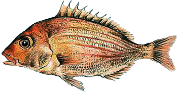 Pterogymnus laniarius from Bibliograph of Fishes by Bashford Dean